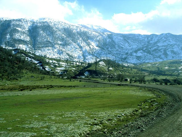 کوهستان اولنگ و تخته بادو